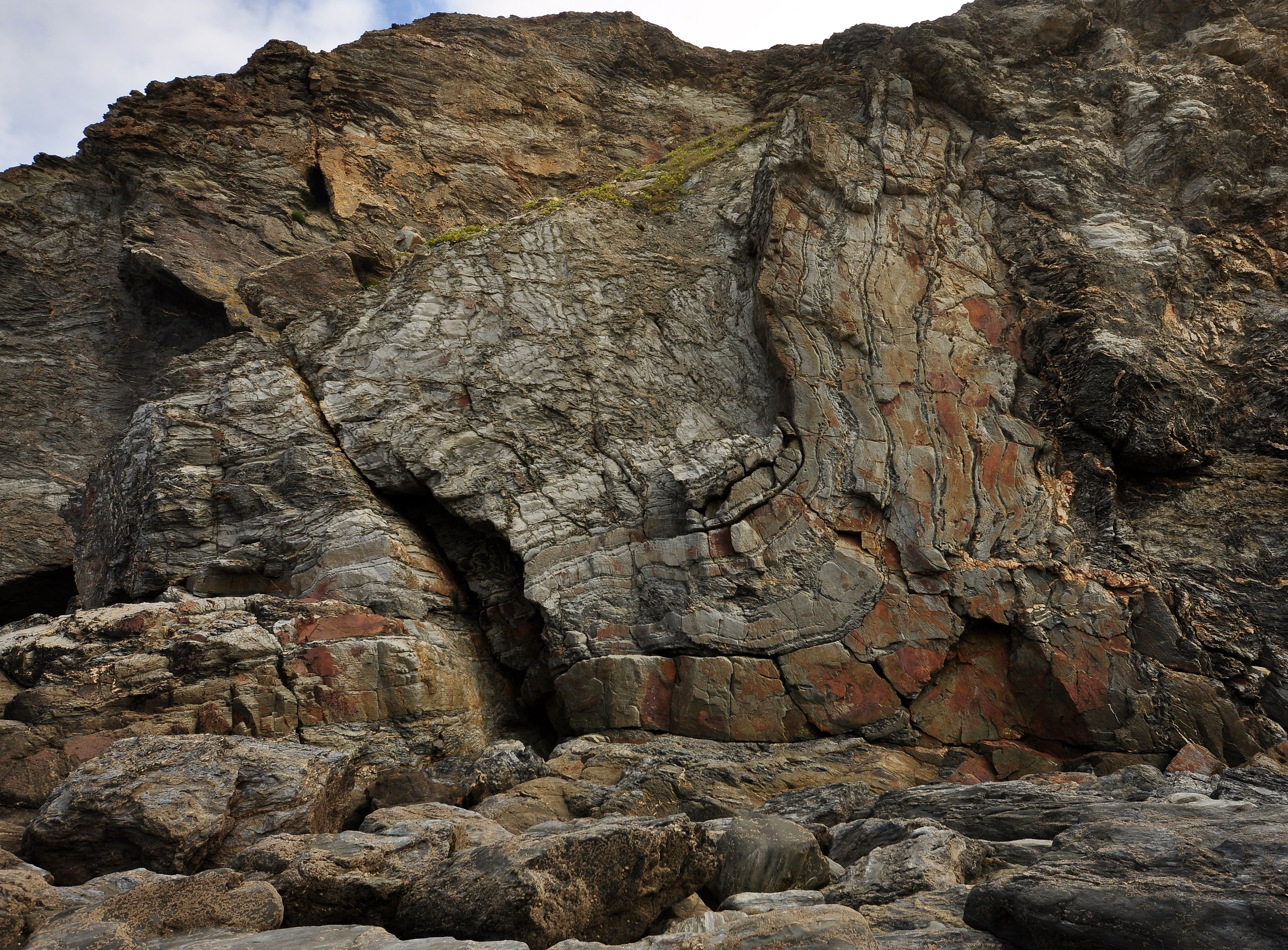 A fold in turbidite sedimentary rocks of the Porthtowan Formation of Devonian age in the cliffs at Porthtowan beach in Cornwall, England, UK.